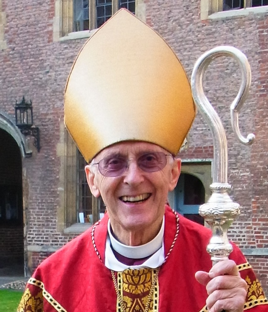 Bishop Simon Barrington-Ward at Magdalene College, Cambridge, 23 October 2011